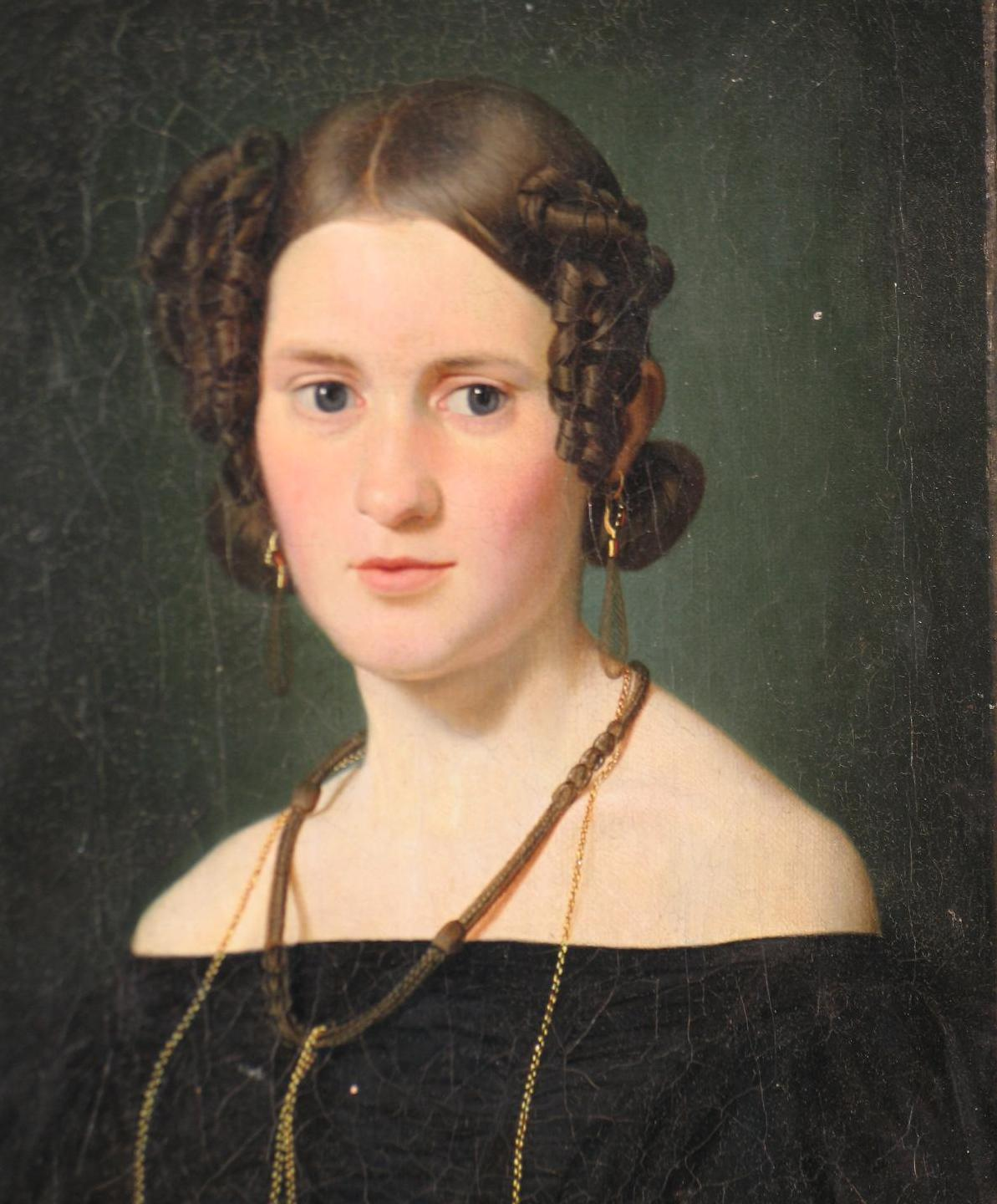 Portrait of Dorothea Hassager